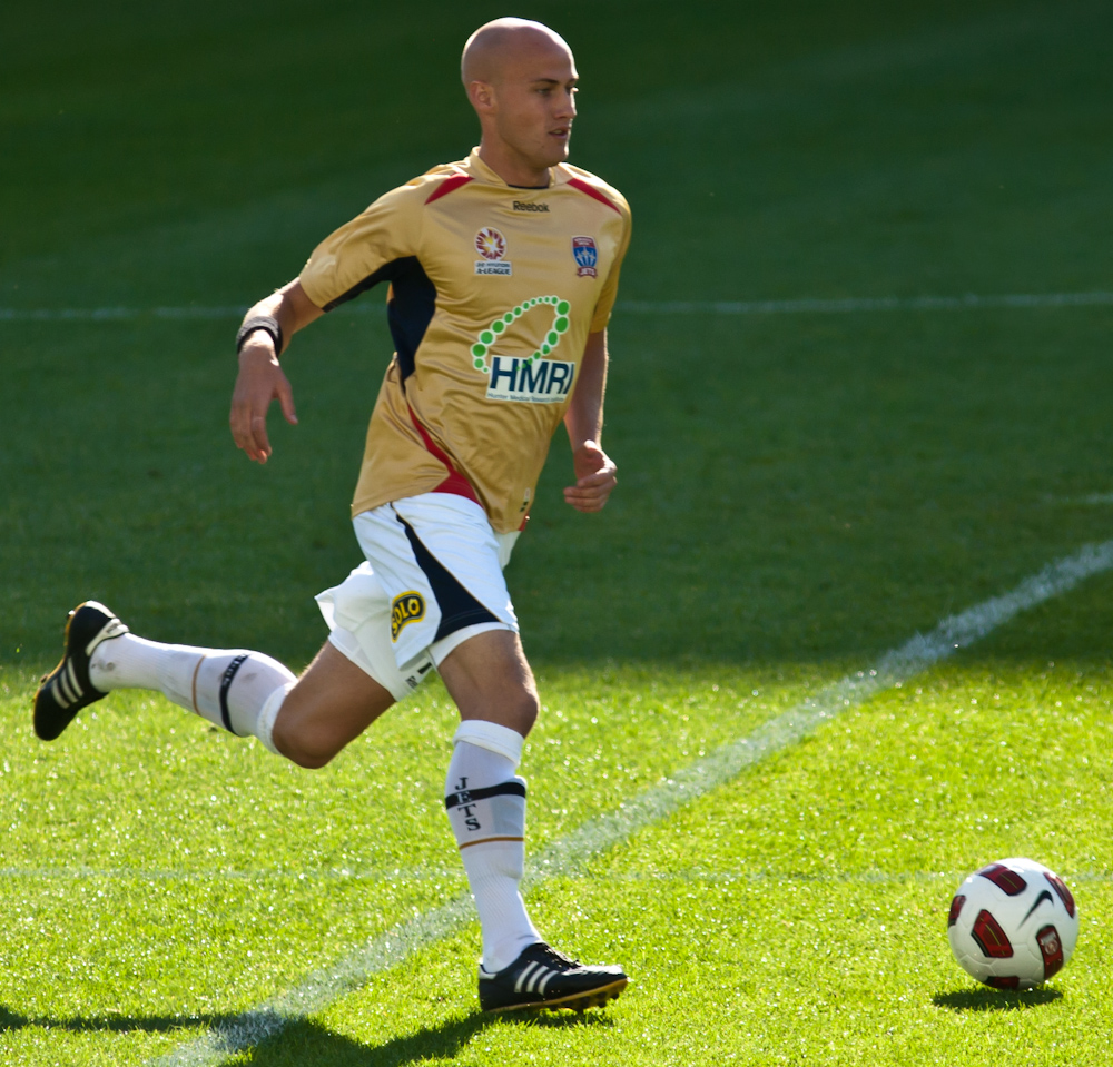 Ruben Zadkovich playing for the Newcastle Jets in the 2010/11 A-League.